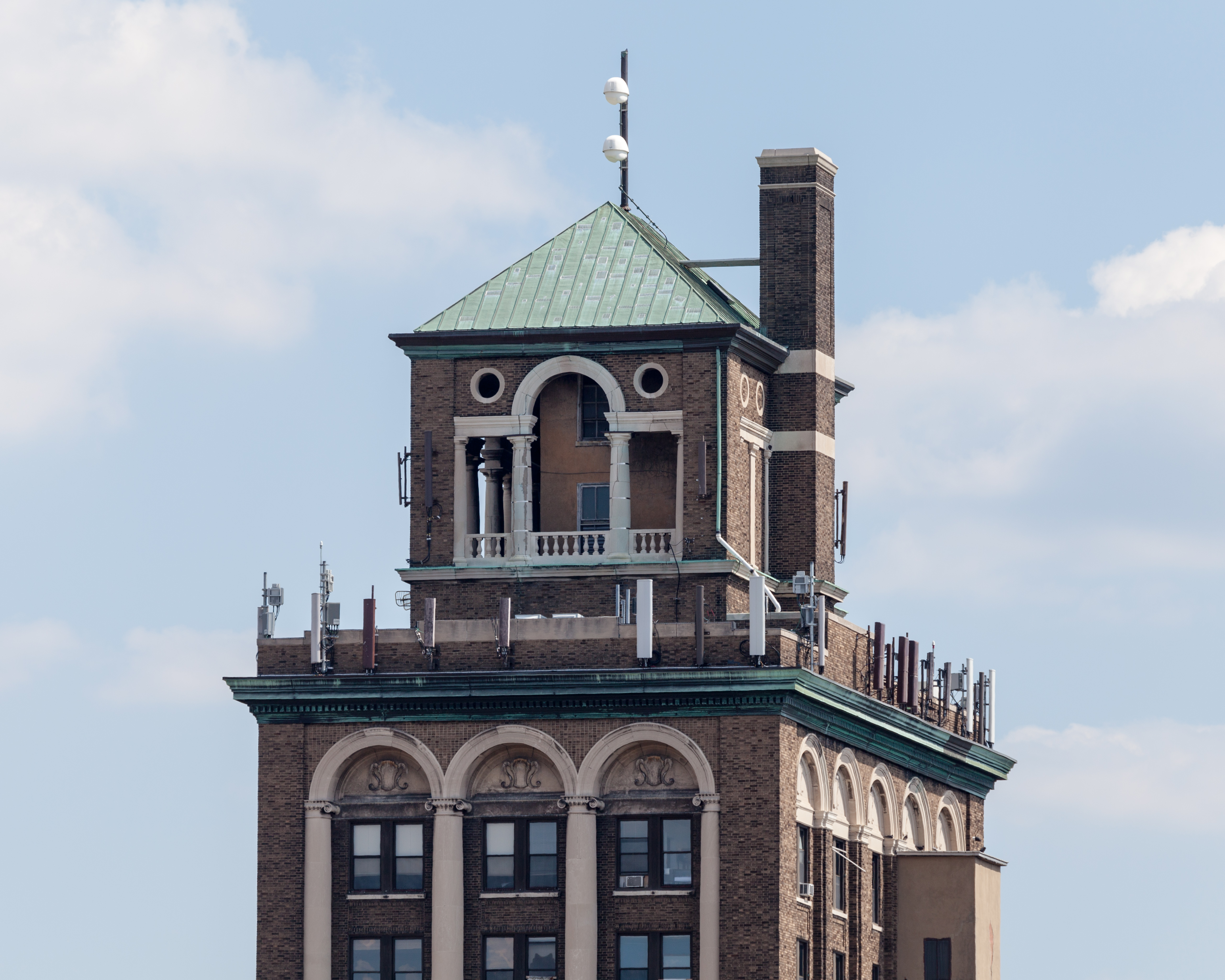 WNJR (FM) antenna location at the top of the Washington Trust Building at 6 South Main Street in Washington, Pennsylvania. Photo from 0.2 miles to the north on North Main.